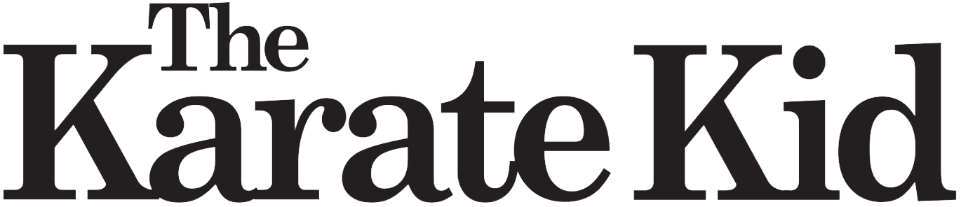 The logo of The Karate Kid